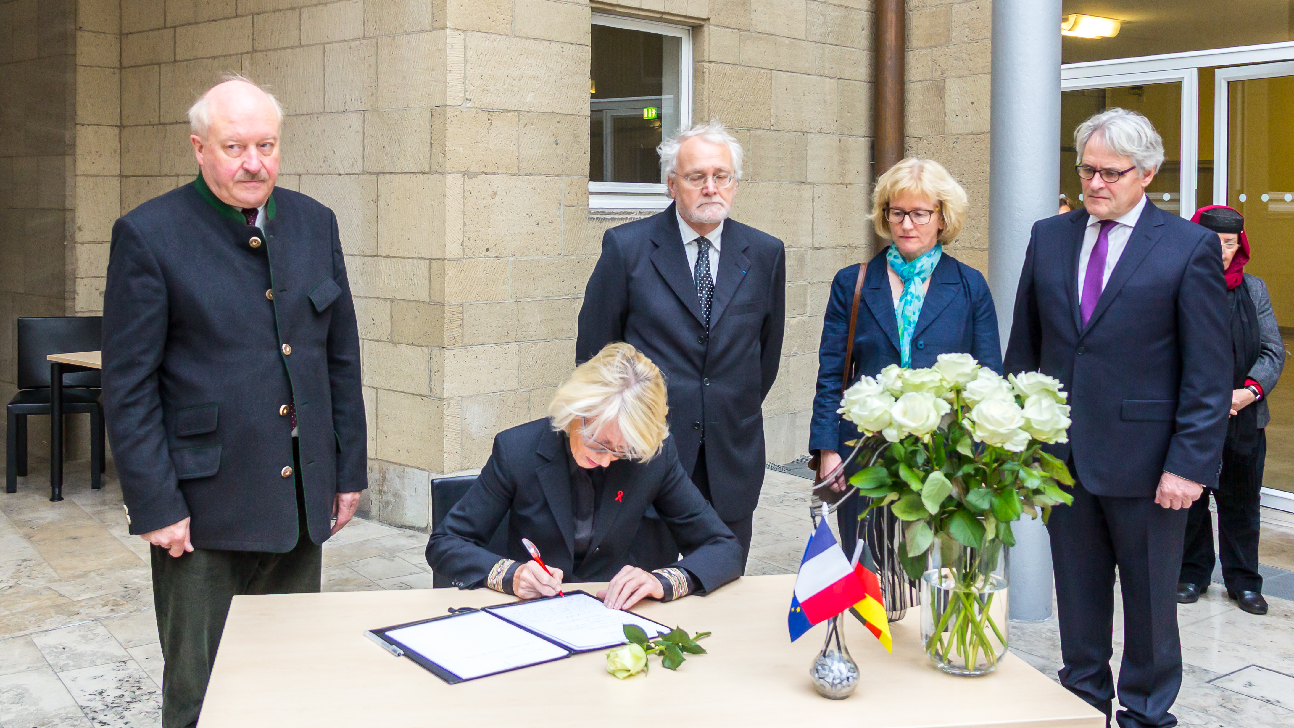 Condolences for the victims and those affected in Paris (13 November 2015) and for Helmut Schmidt, former Chancellor of Germany (23 December 1918 – 10 November 2015), in the Town Hall of Cologne.